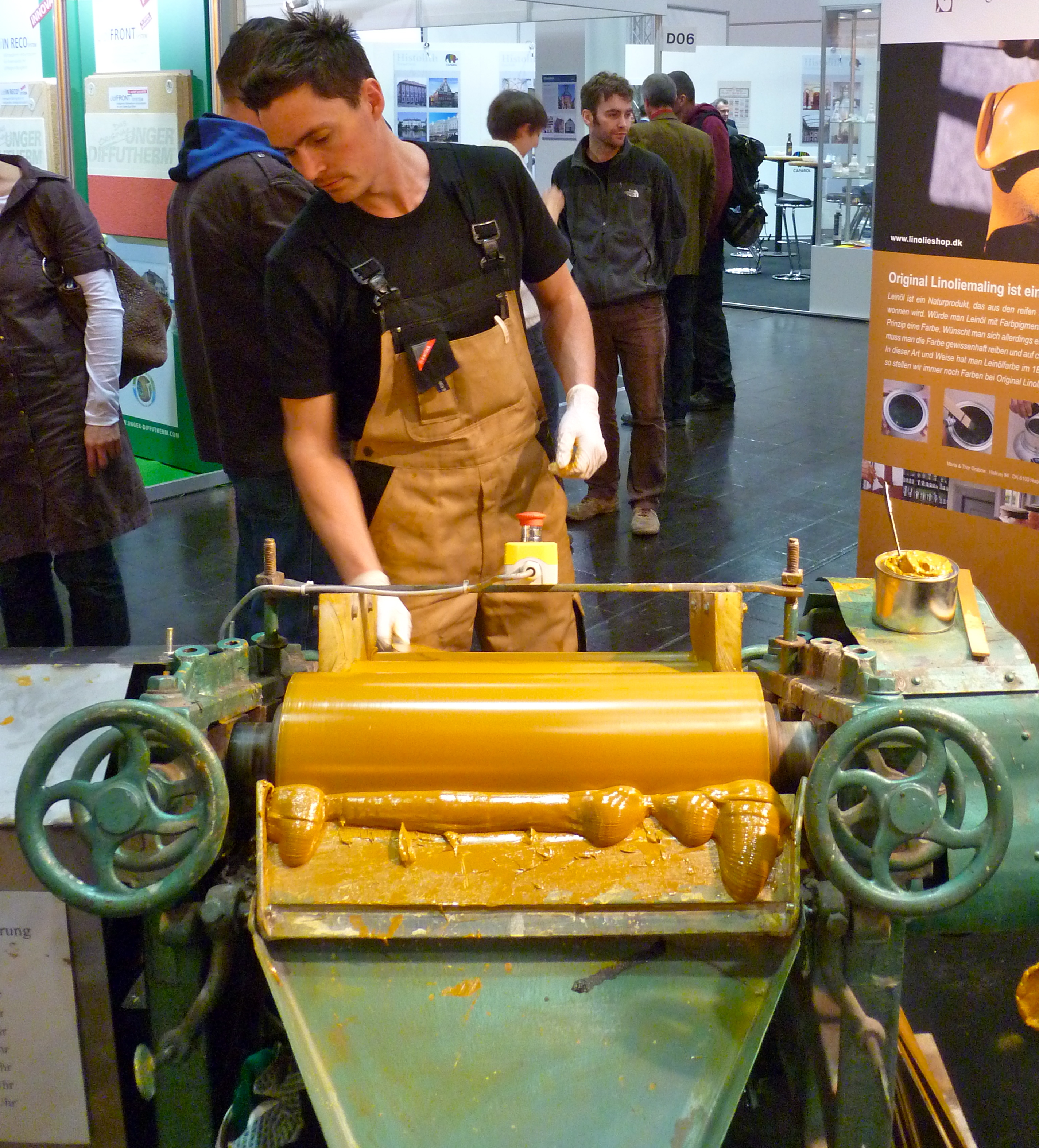 A Danish manufacturer, Thor Grabow, demonstrates how little one needs to produce high quality linseed oil color at a fair in Leipzig, Germany.